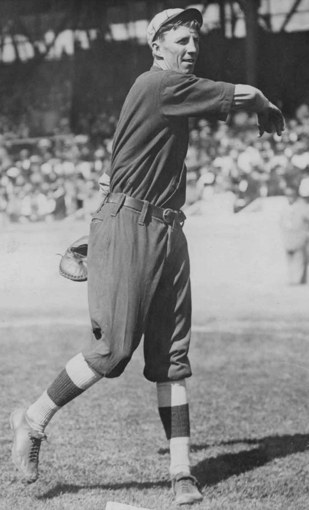 Professional baseball player Hank Gowdy